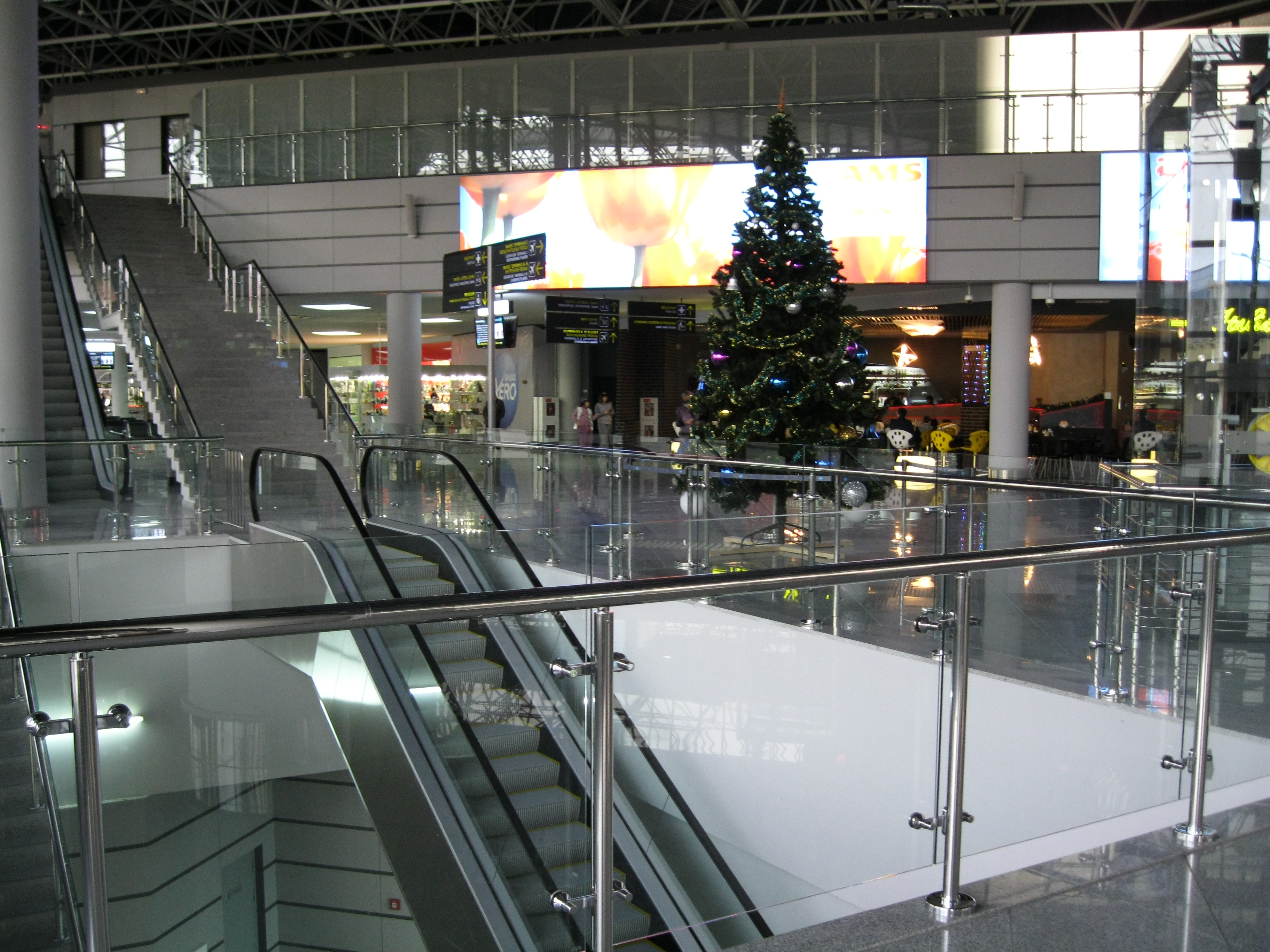 Sochi International Airport escalator